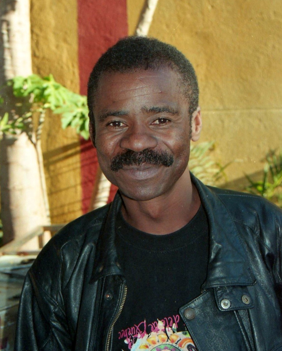 Jaojoby, the "King of Salegy", a popular musical style from northern Madagascar, photographed outside Antananarivo nightclub Le Bus in 1999